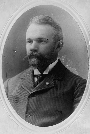 William Libbey (1855-1927), profesor of physical geography, director of the Museum of Geology and Archaeology at Princeton